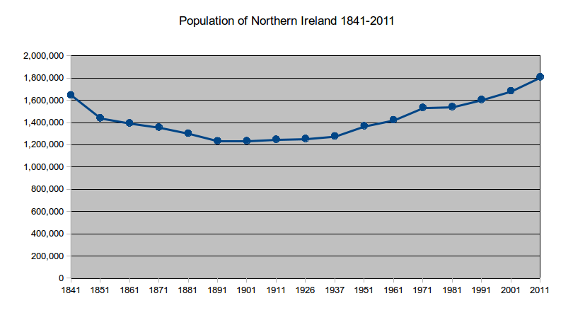 Graph showing the population of Northern Ireland from 1841 to 2011